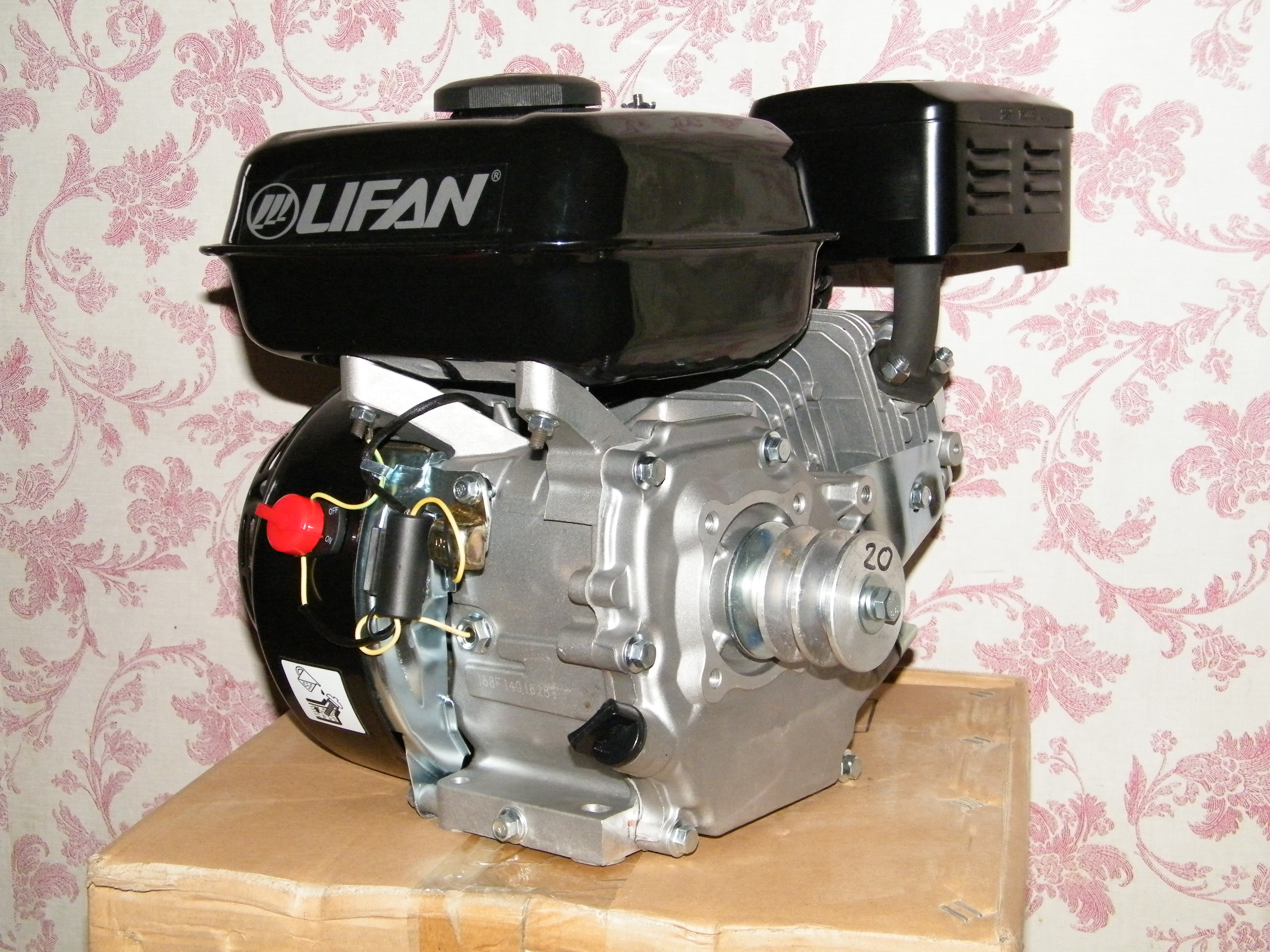 Snowmobiles in Russia